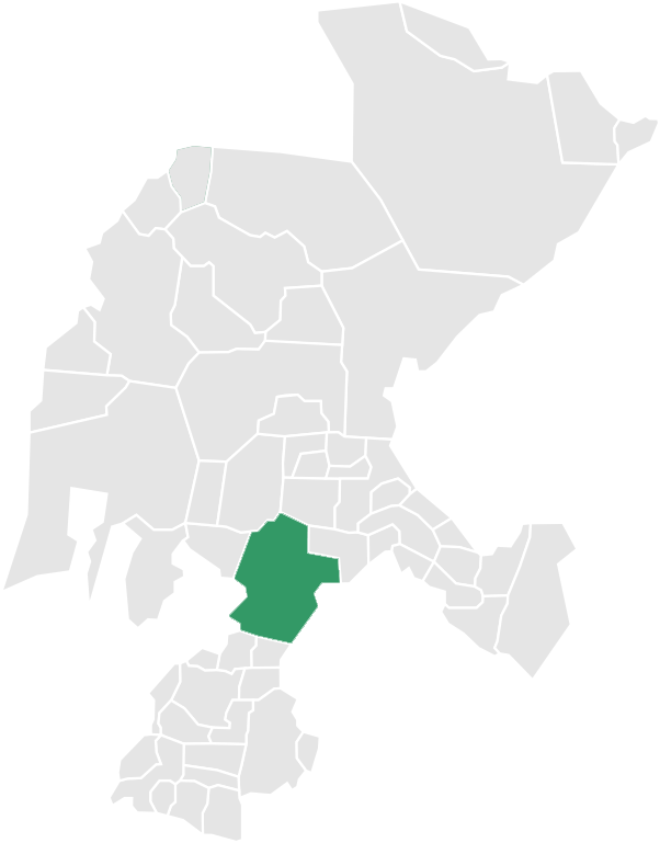 Map of the Municipality of Villanueva in Zacatecas, México.